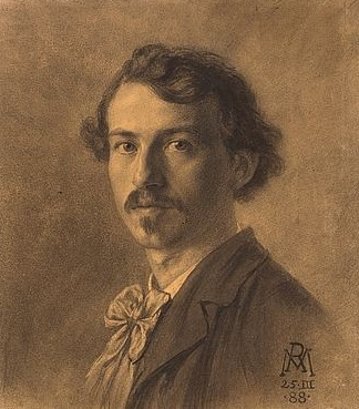 Rudolf Münger self-portrait dated 1888-03-15, pastel.